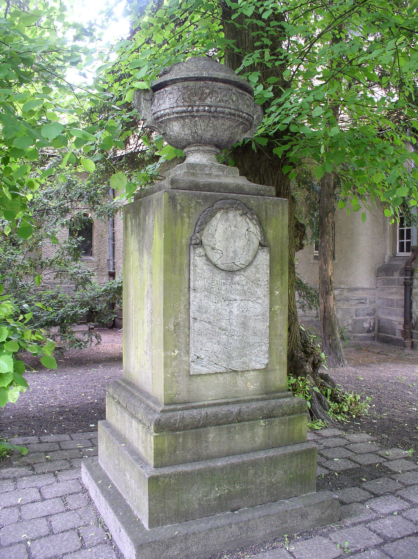 Grave of Wilhelmine Anna Susanne von Holwede at the Churchyard Alt-Tegel, Berlin